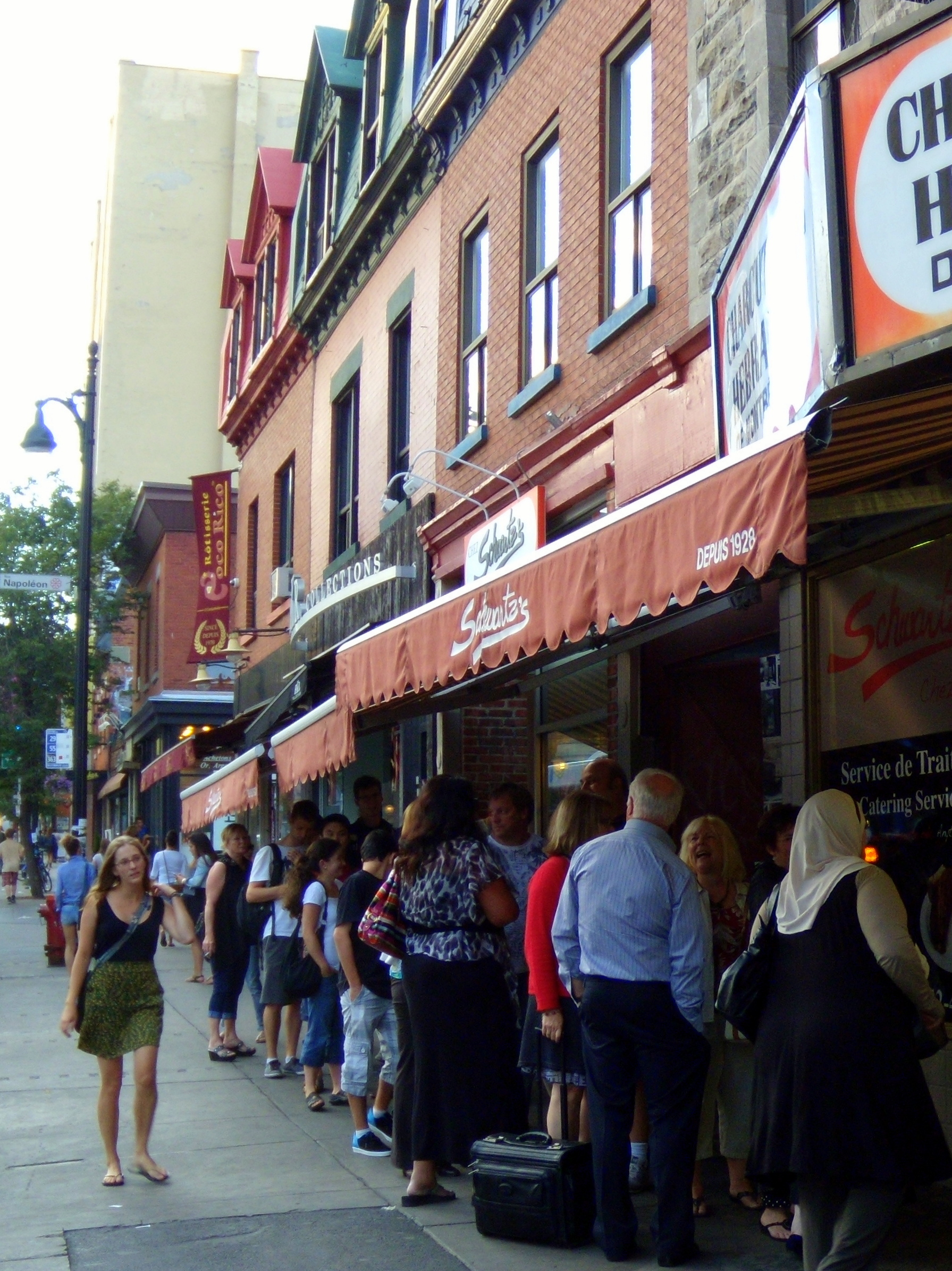 Lineup outside of Schwartz's in Montreal (August 2012)